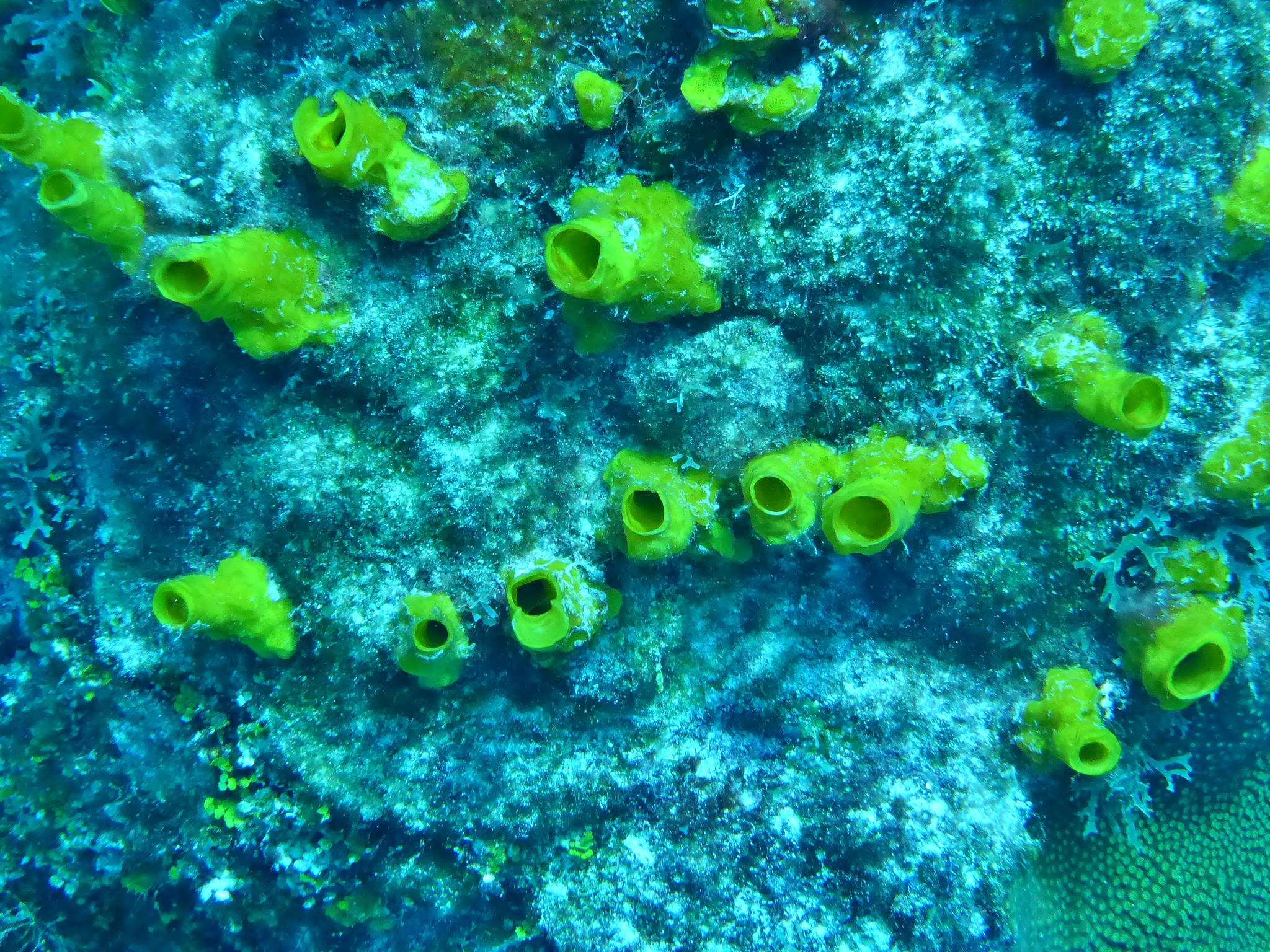 Variable Boring Sponge (Siphonodictyon coralliphagum). Species of marine invertebrate.